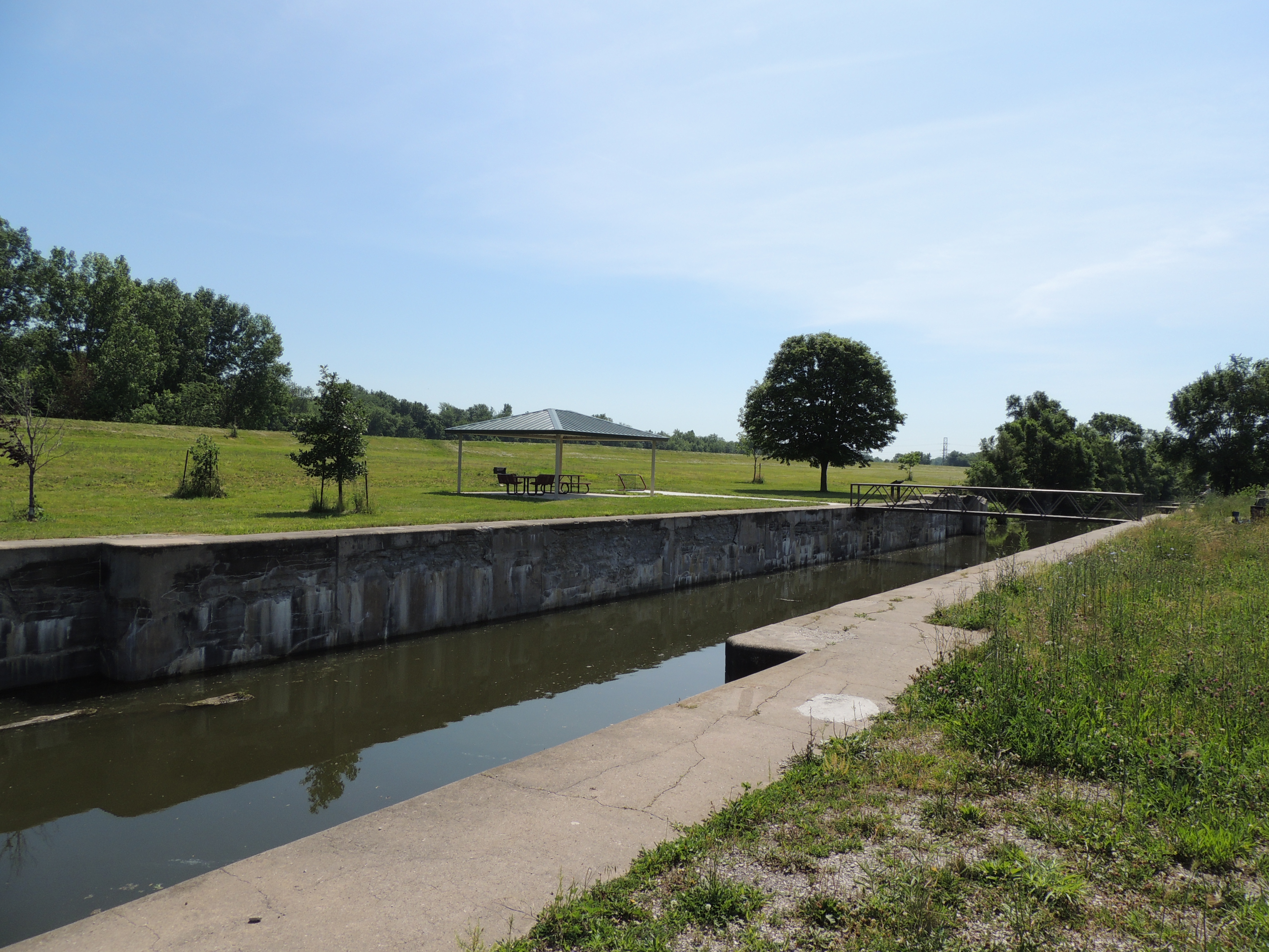 Looking East at Lock 31 on the Hennepin Canal Parkway State Park Trail. Lock 31 is in Milan Illinois.